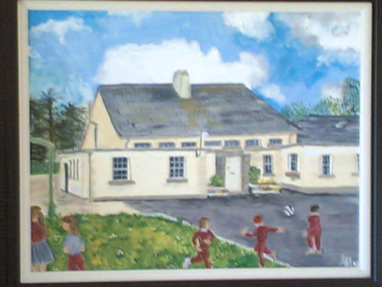 Children at Play, Gurrane National School, Crossbarry Innishannon Cork Ireland